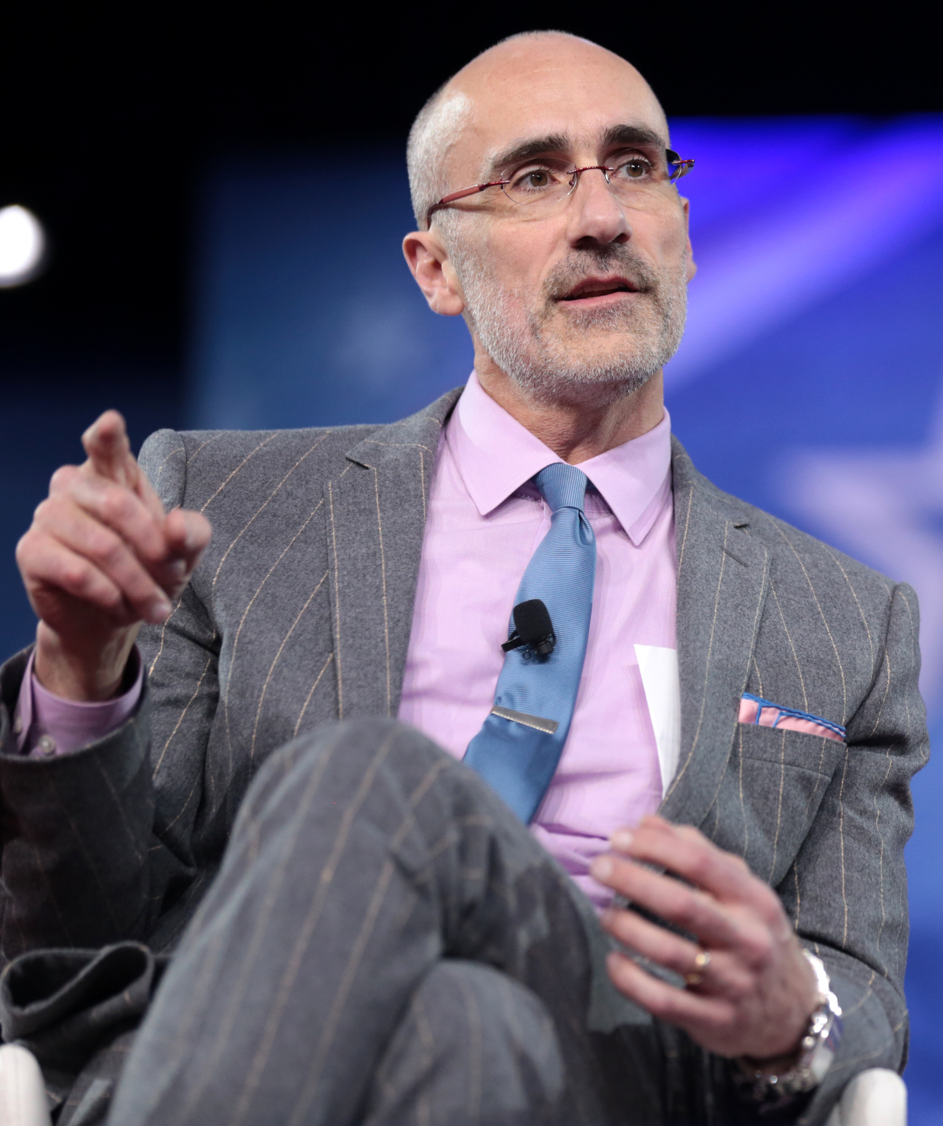 Arthur C. Brooks speaking at the 2017 CPAC in National Harbor, Maryland.